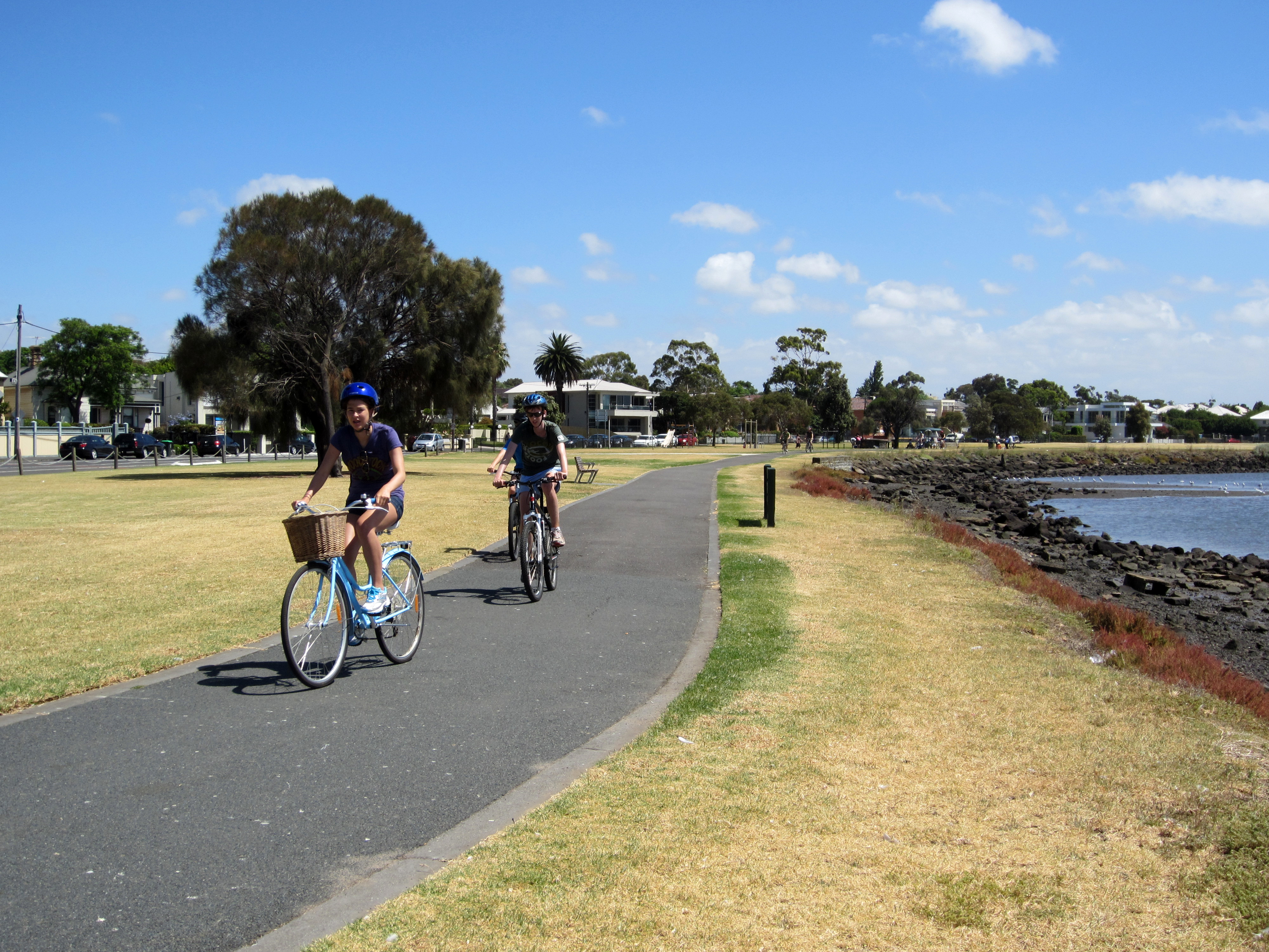 The Strand, Newport, Victoria